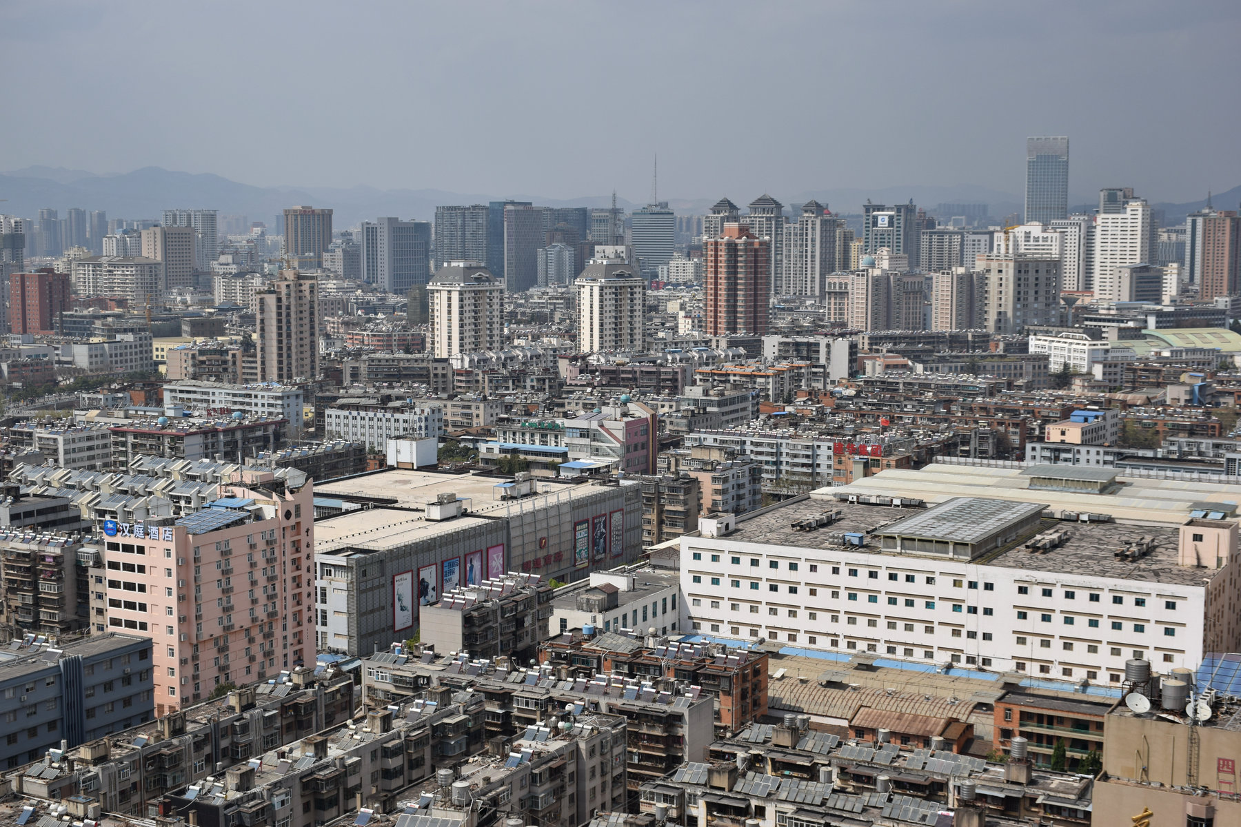 Aerial view of downtown Kunming